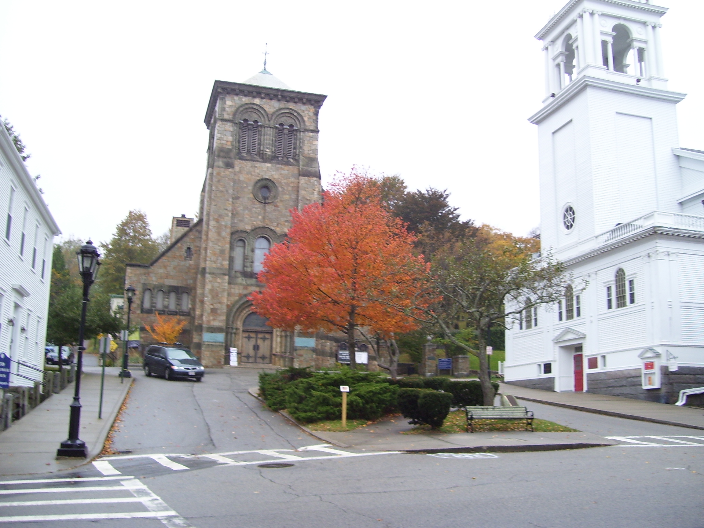 My 2009 photo fo First Parish Church in Plymouth, Massachusetts, USA.